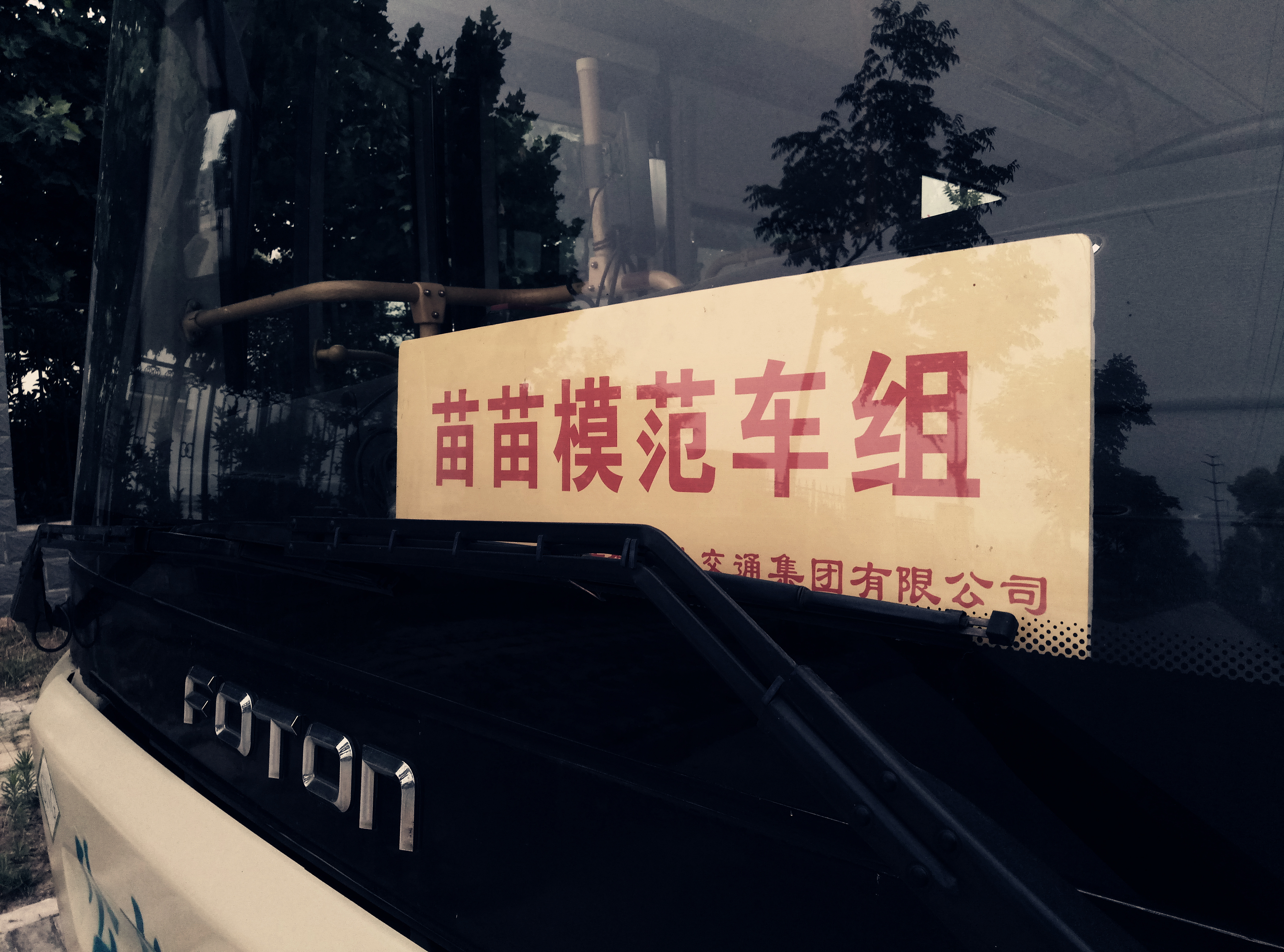 Bengbu Bus Miaomiao Exemplar Group Medal